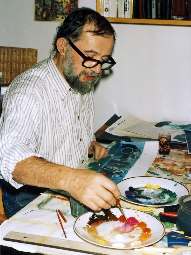 Štěpán Zavřel during his creative activity